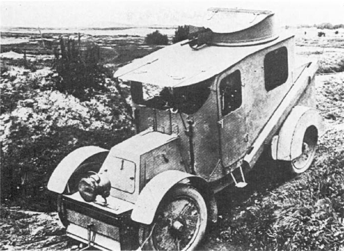 Charron_Girardot_Voigt_1906